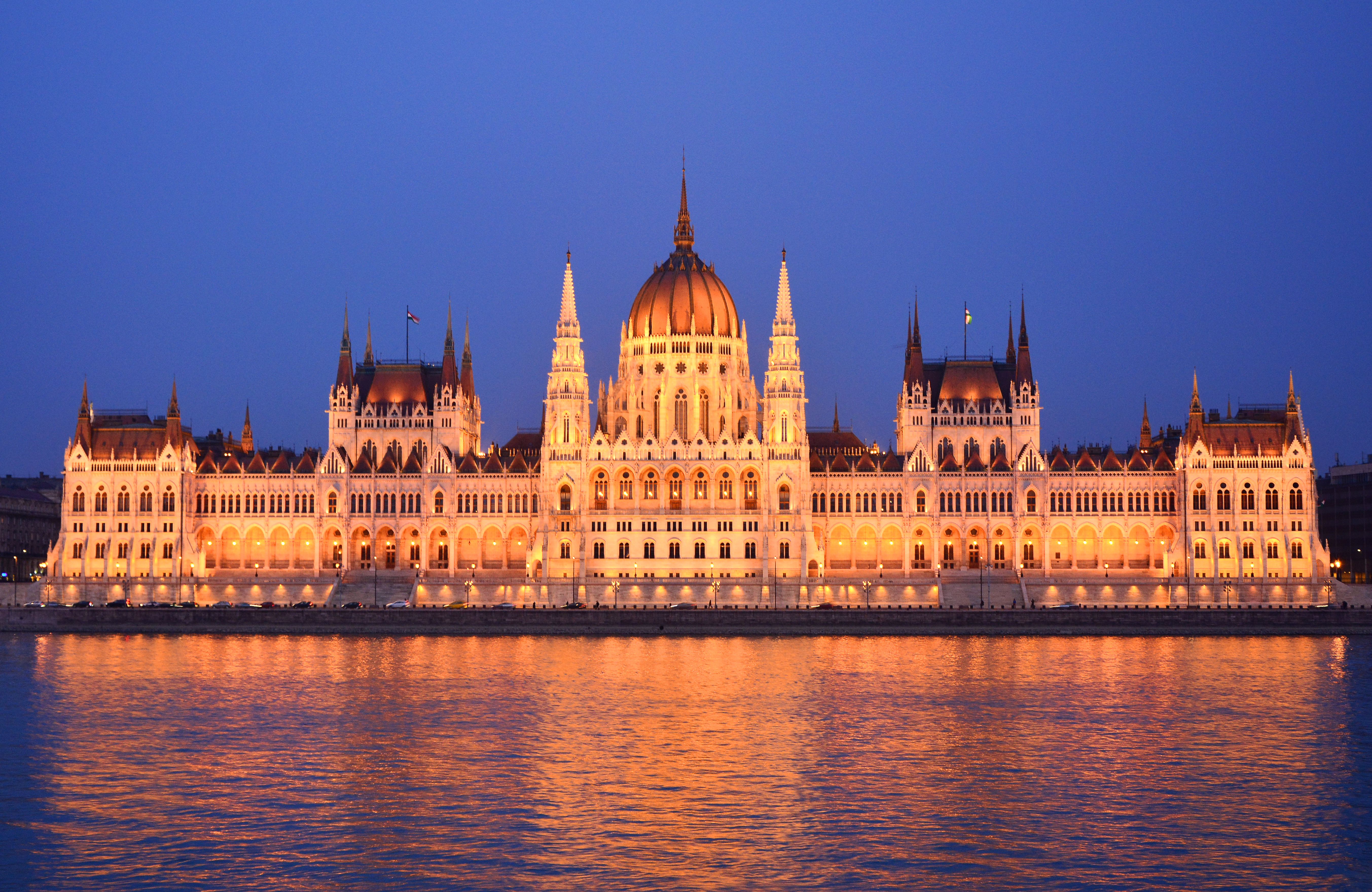 Parliament Building, Budapest, Hungary संस्कृतम्: संसद भवन, बुद्धप्रस्थ, हंगरी